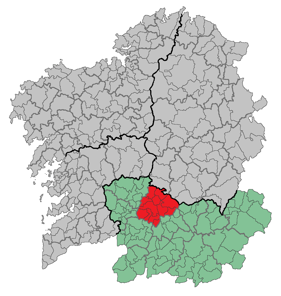 Region of Galicia (Spain)Based in: Image:Location of Betanzos.png Source: Designed by Leoplus. Original picture, designed by Caiser over a work made by Alyssalover.